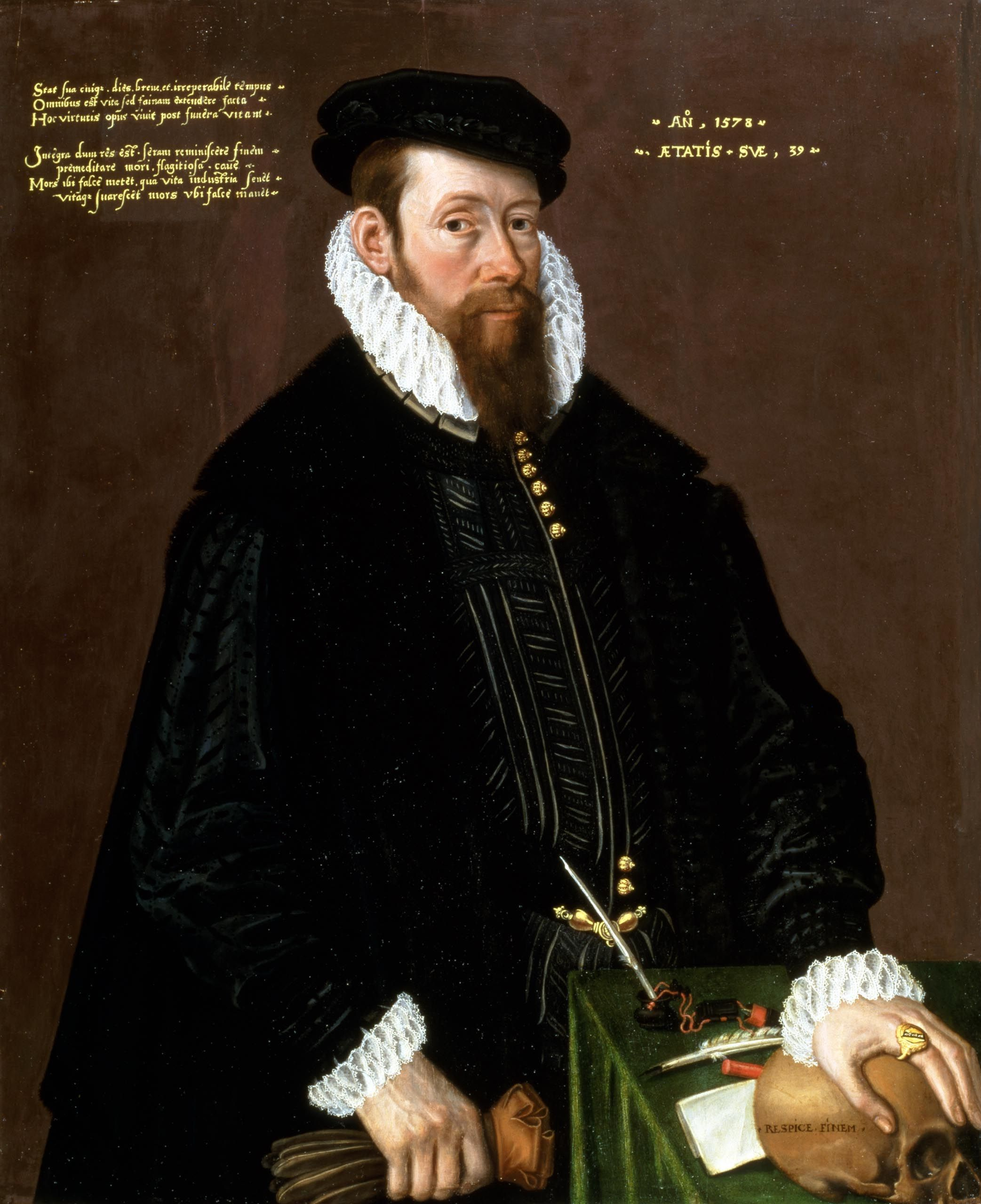 Thomas Pead. Oil on Panel. Inscribed on skull: "Respice Finem". Inscribed on background: "Ano 1578/Aetatis Sue 39". 34 x 27 3/4 in (86 x 70.5 cm).